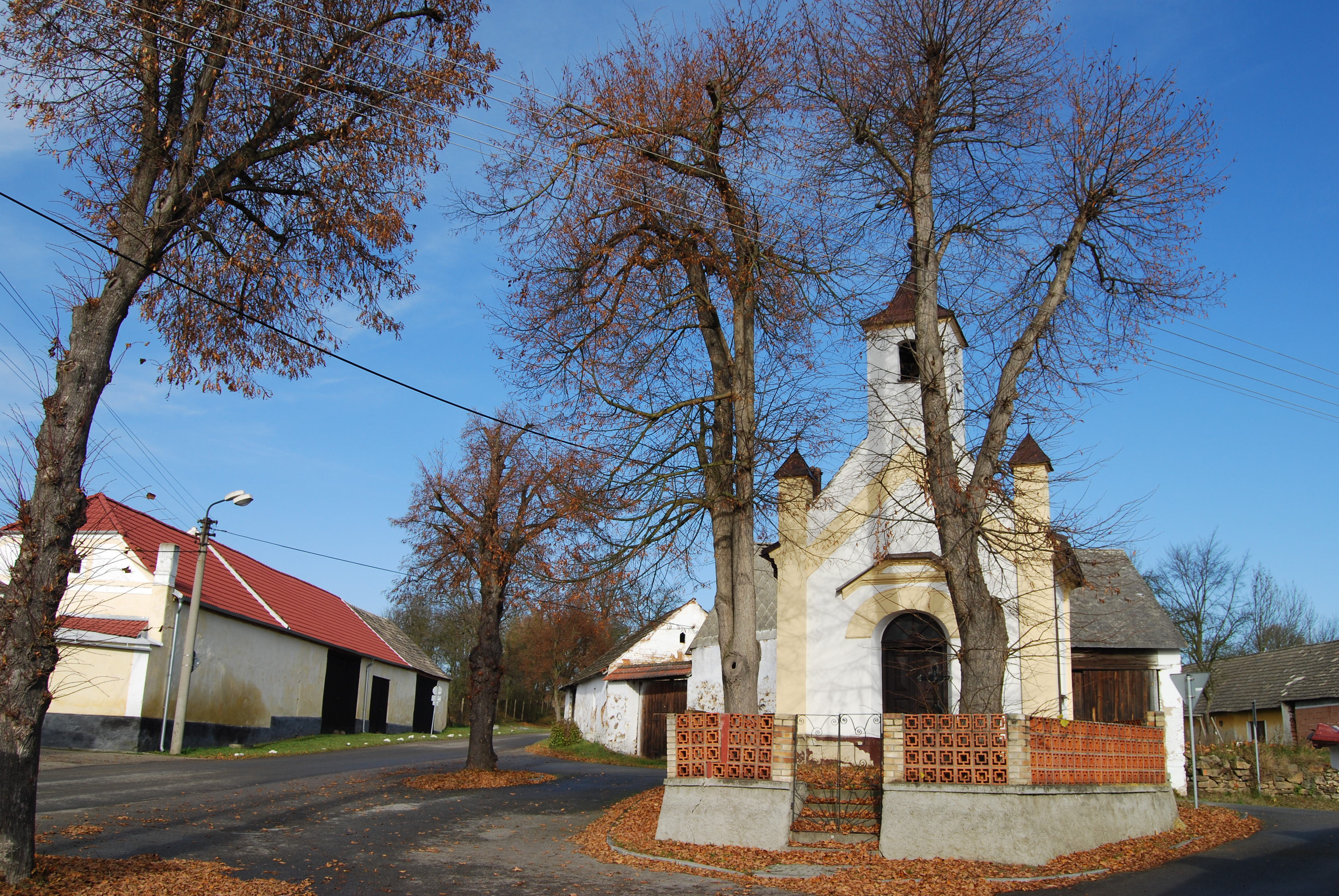 Hosty village in České Budějovice District, Czech Republic. Chapel.